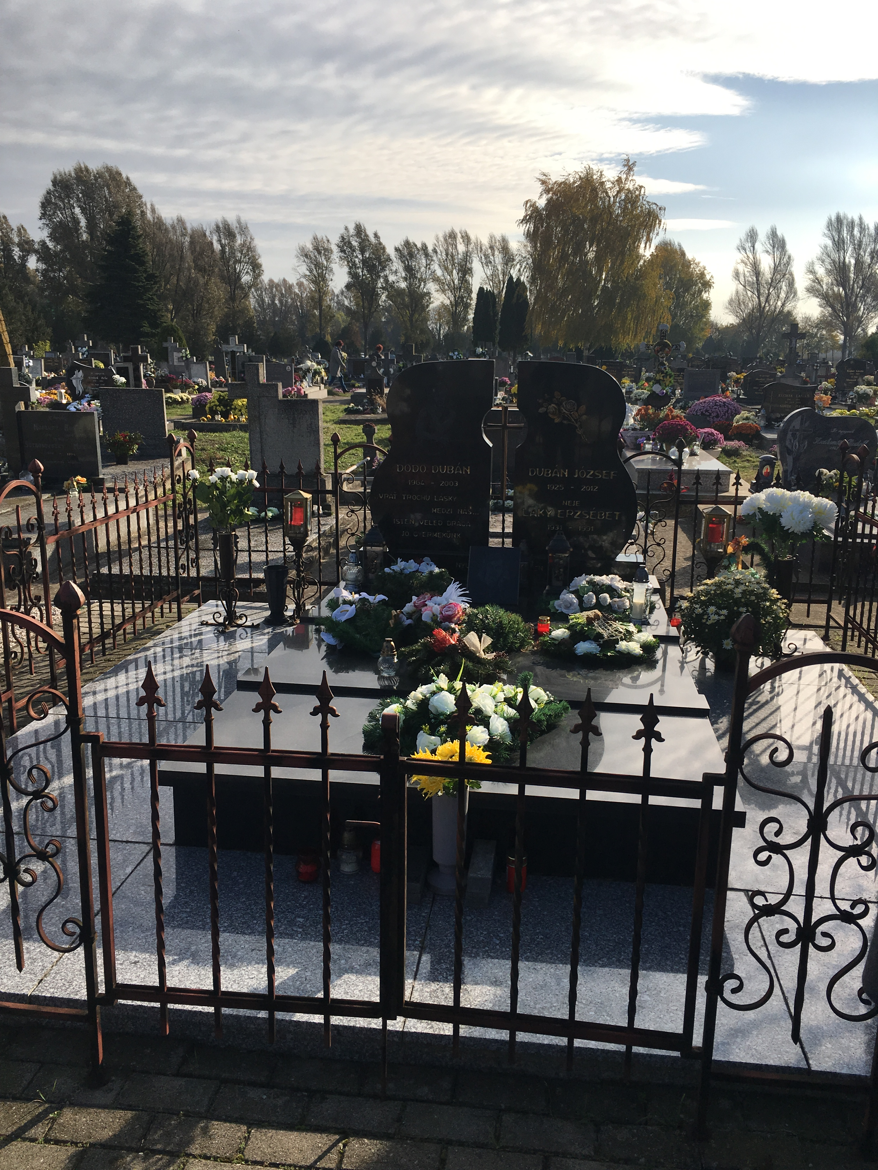 Dodo Duban Grave